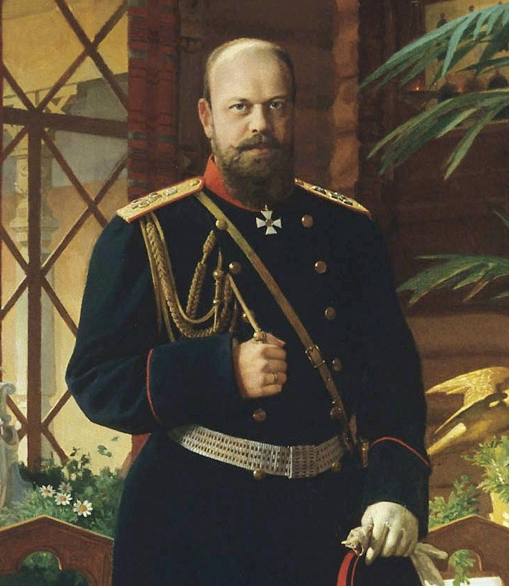 Portrait of Emperor Alexander III by Nikolai Dmitriev-Orenburgsky (1837-1898)